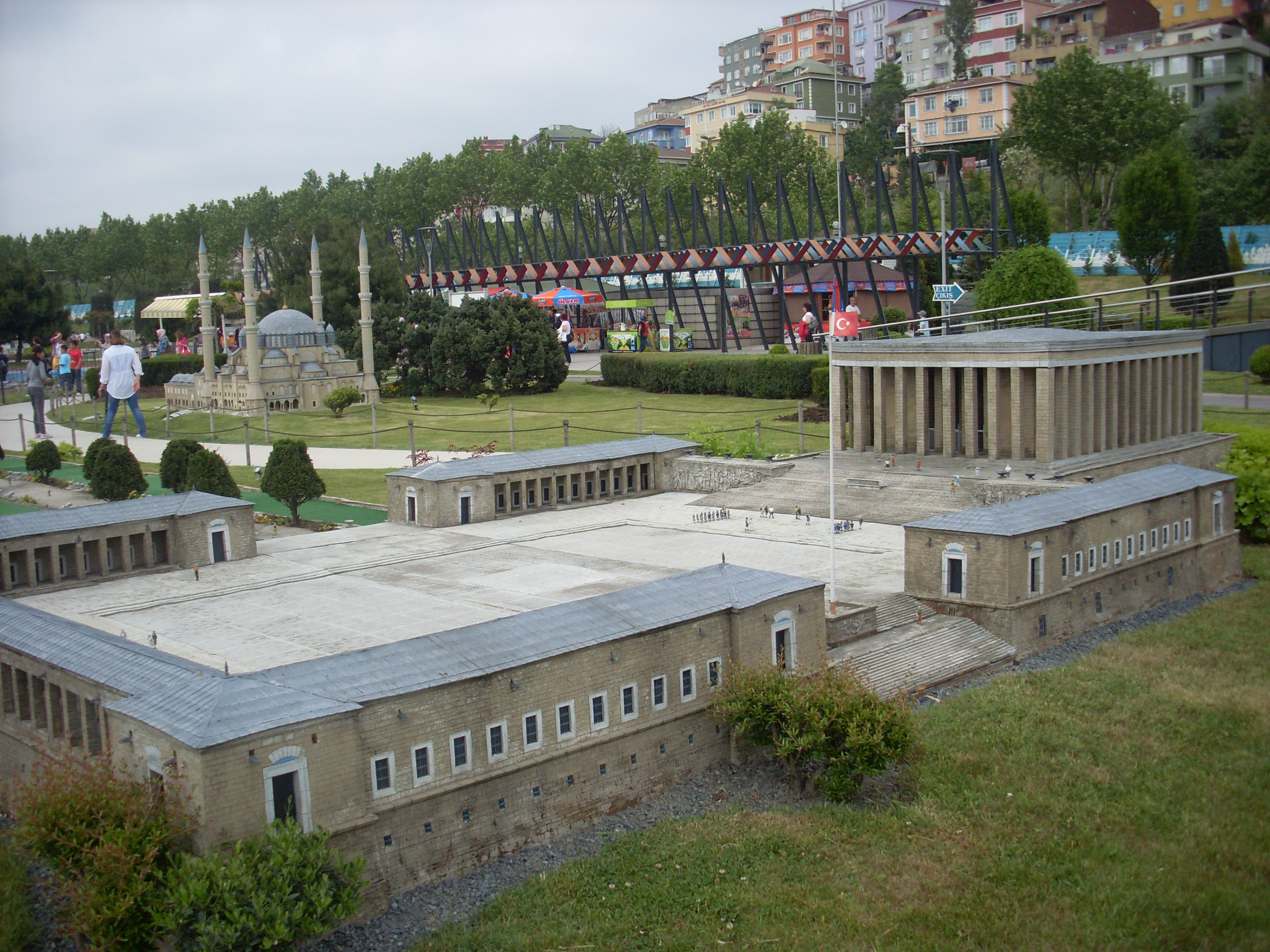 Miniaturk Anıtkabir